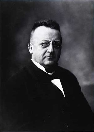 Johannes Ernst Ludvig Markus Pitzner (1865-1933), Danish baker and politician, MP